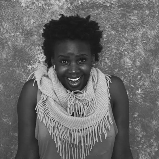 Photoshoot